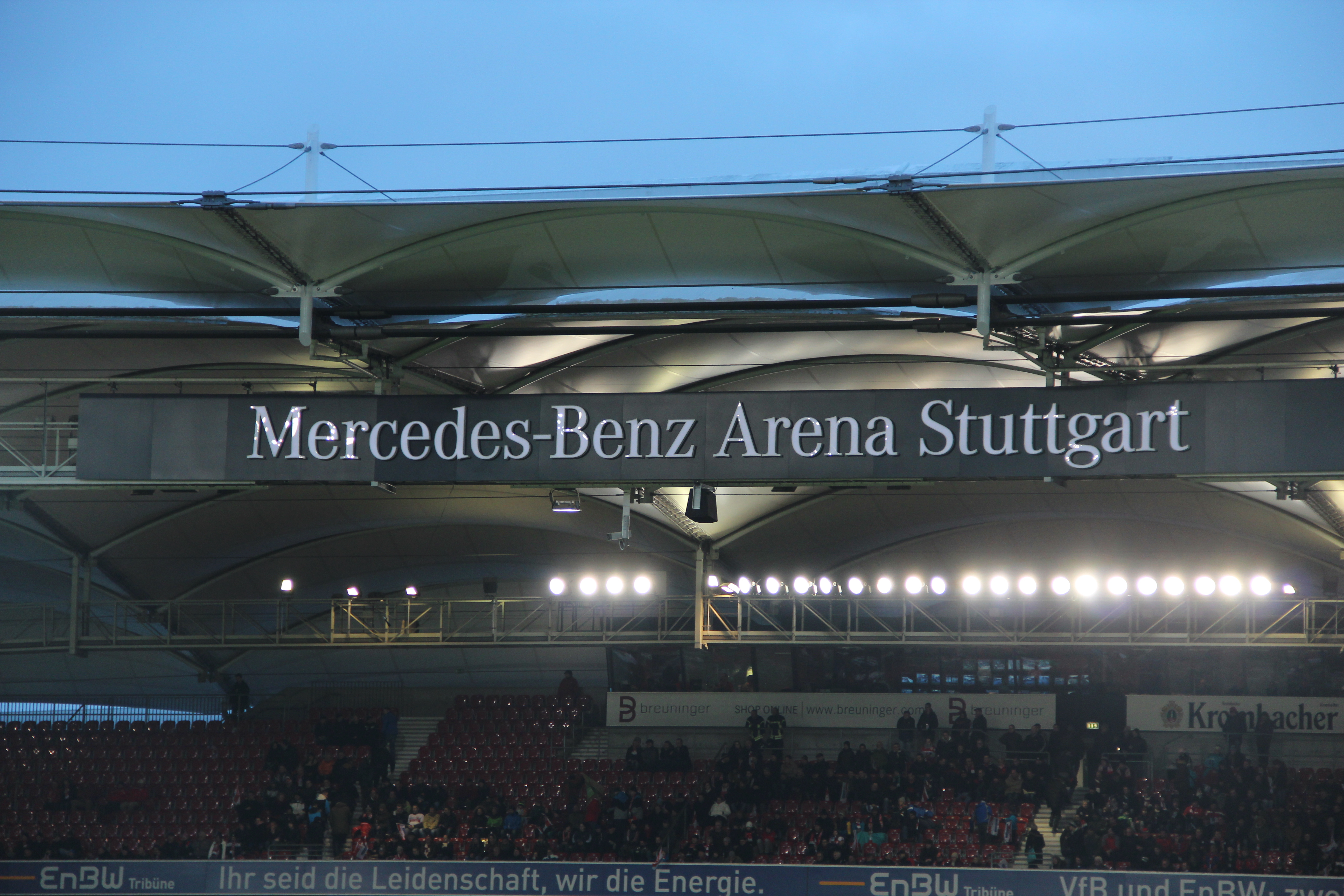 name logo of Mercedes-Benz Arena during Bundesliga match of VfB Stuttgart against Werder Bremen on 9 February 2013